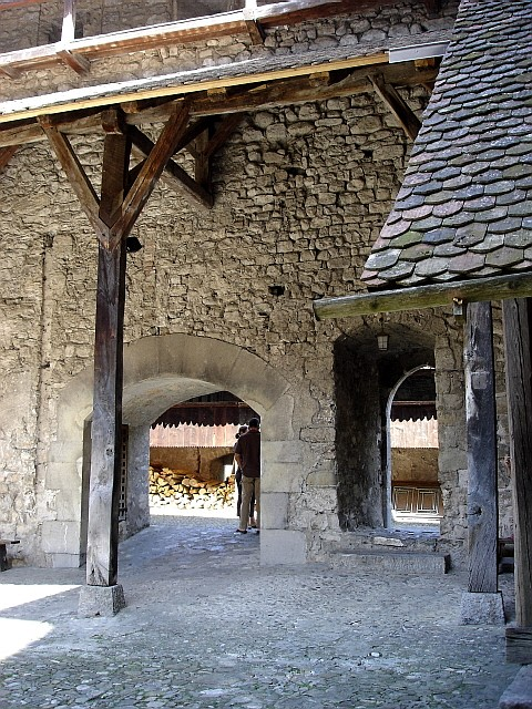 Chillon